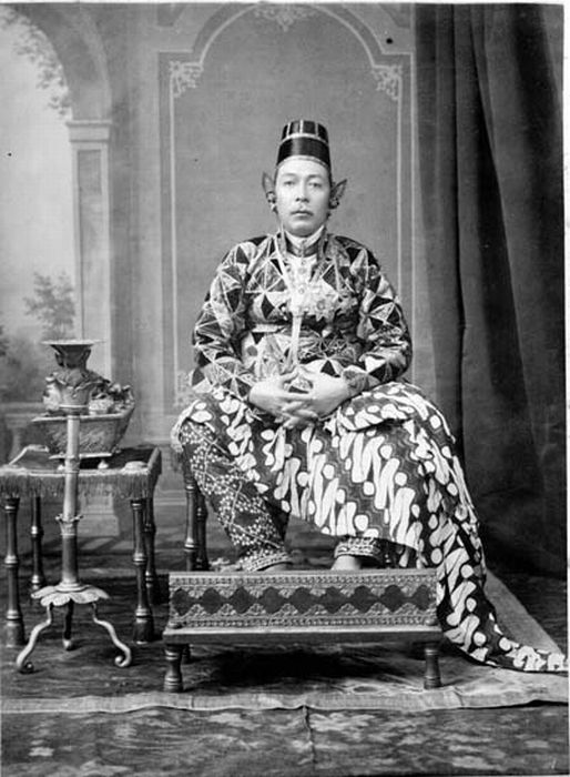 Photograph - Studio portait of Hamengkubuwana VII, Sultan of Yogyakarta